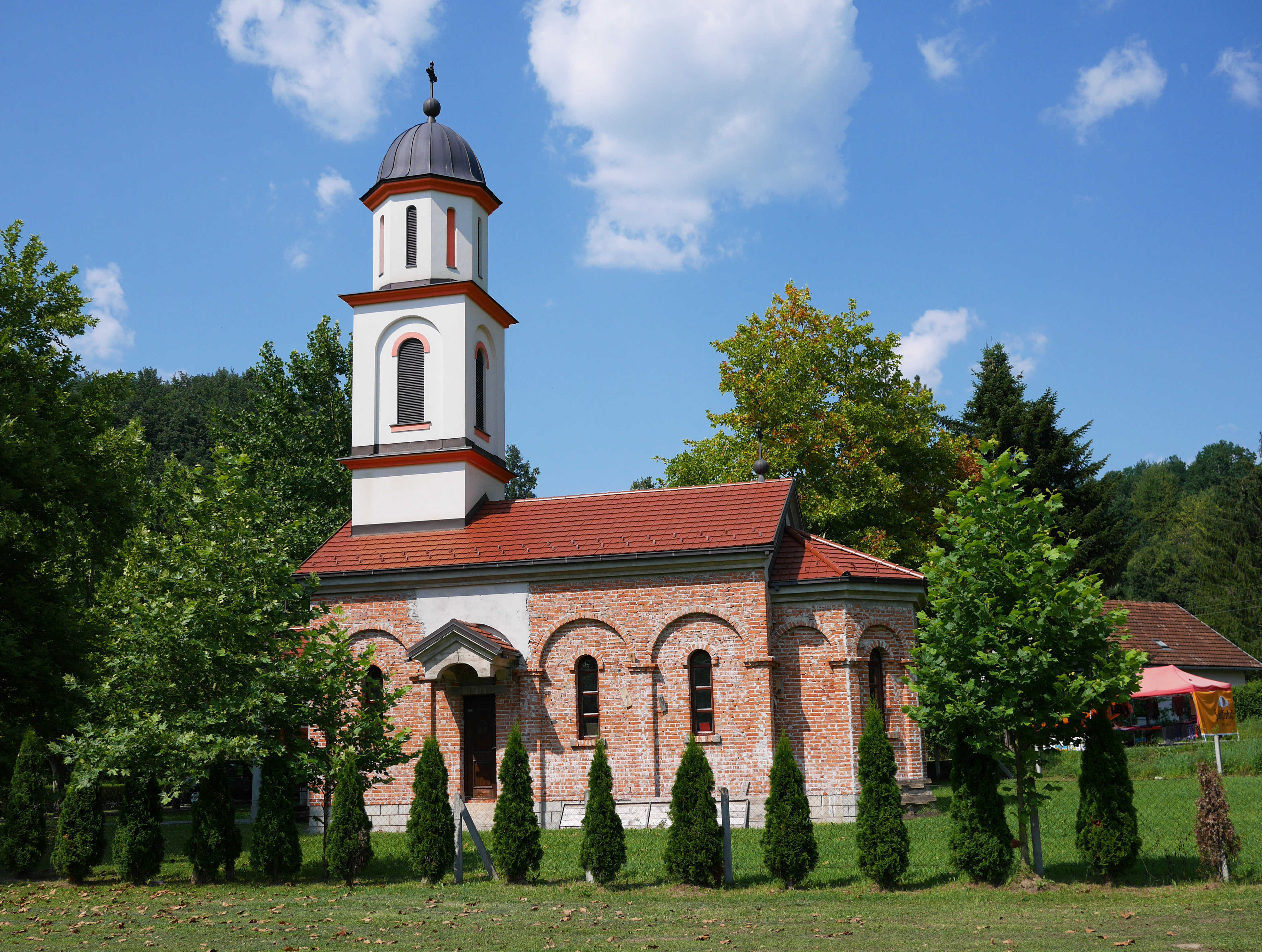 Church "Sveta Petka" in Mlječanica village, Republika Srpska